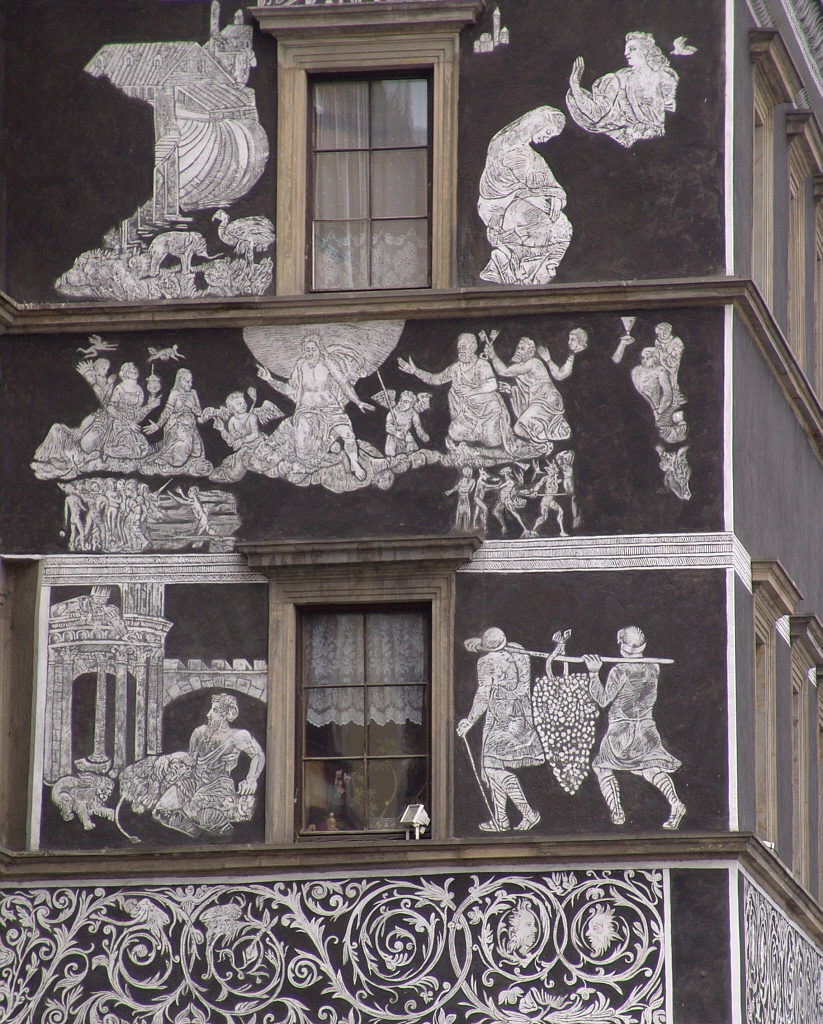 Fragments of 1560s sgraffito decoration on the Black Eagle house in the main square of Litoměřice. (photo taken in 2005).